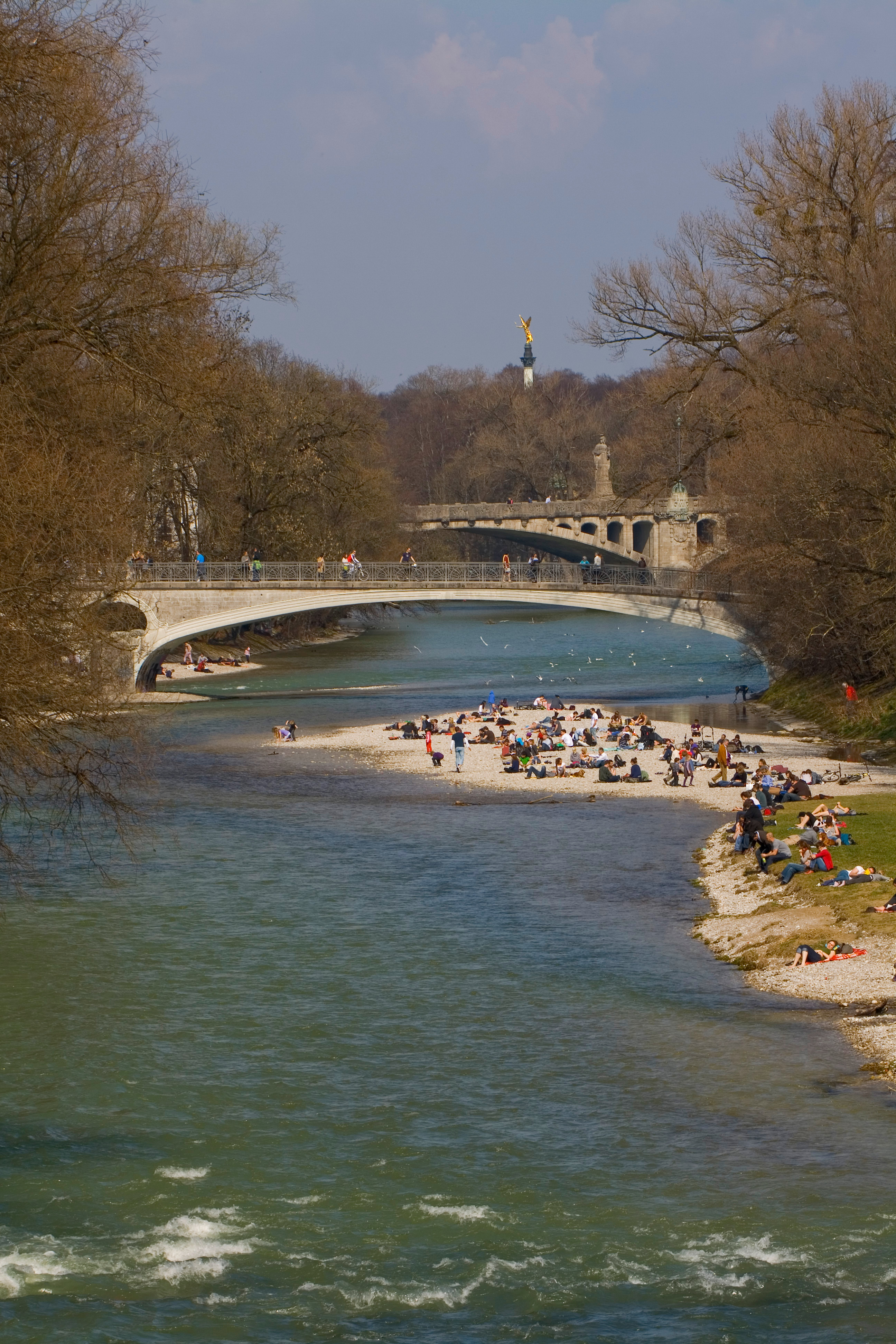 Isar River, Munich, Germany